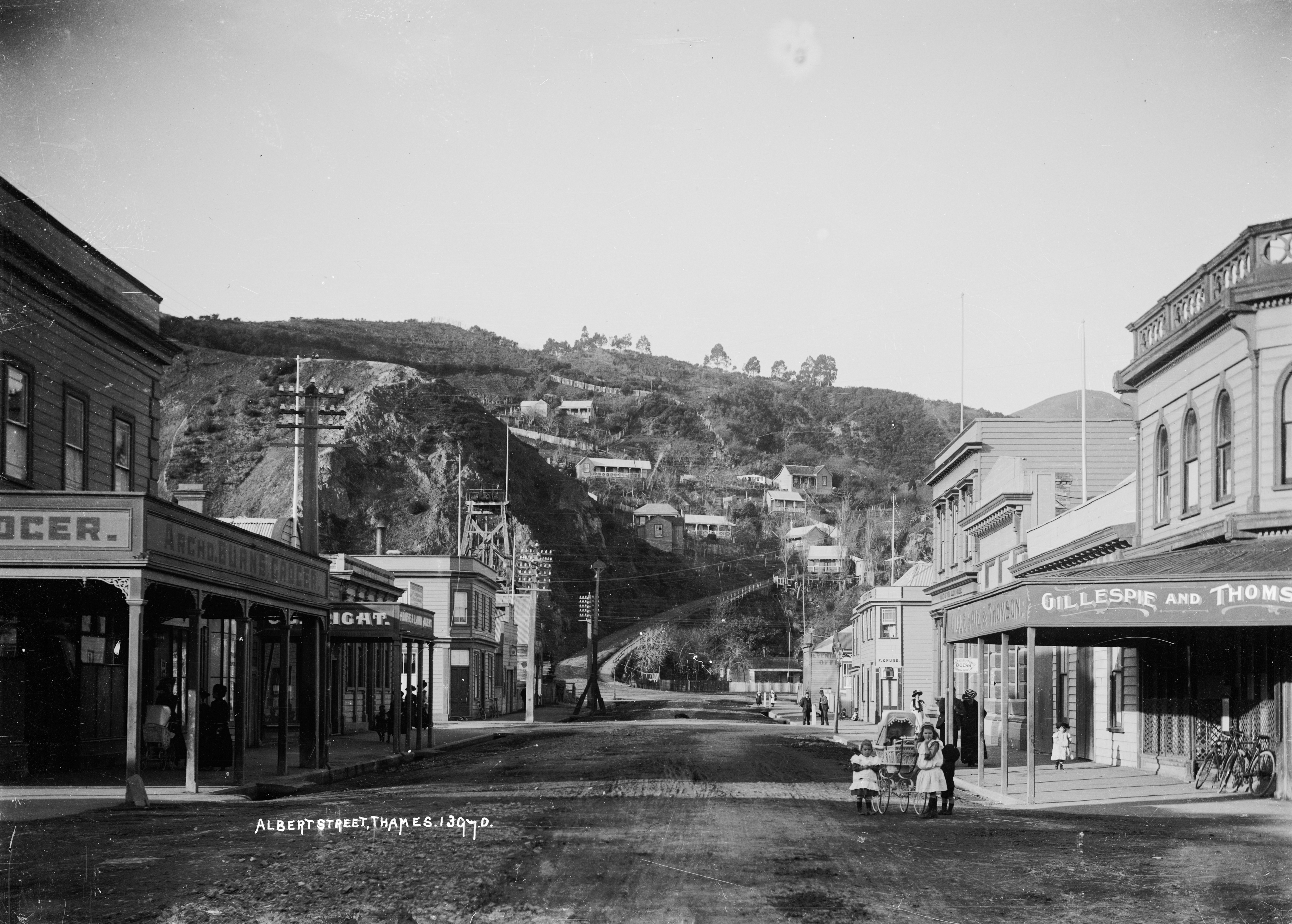 View looking up Albert Street, Thames